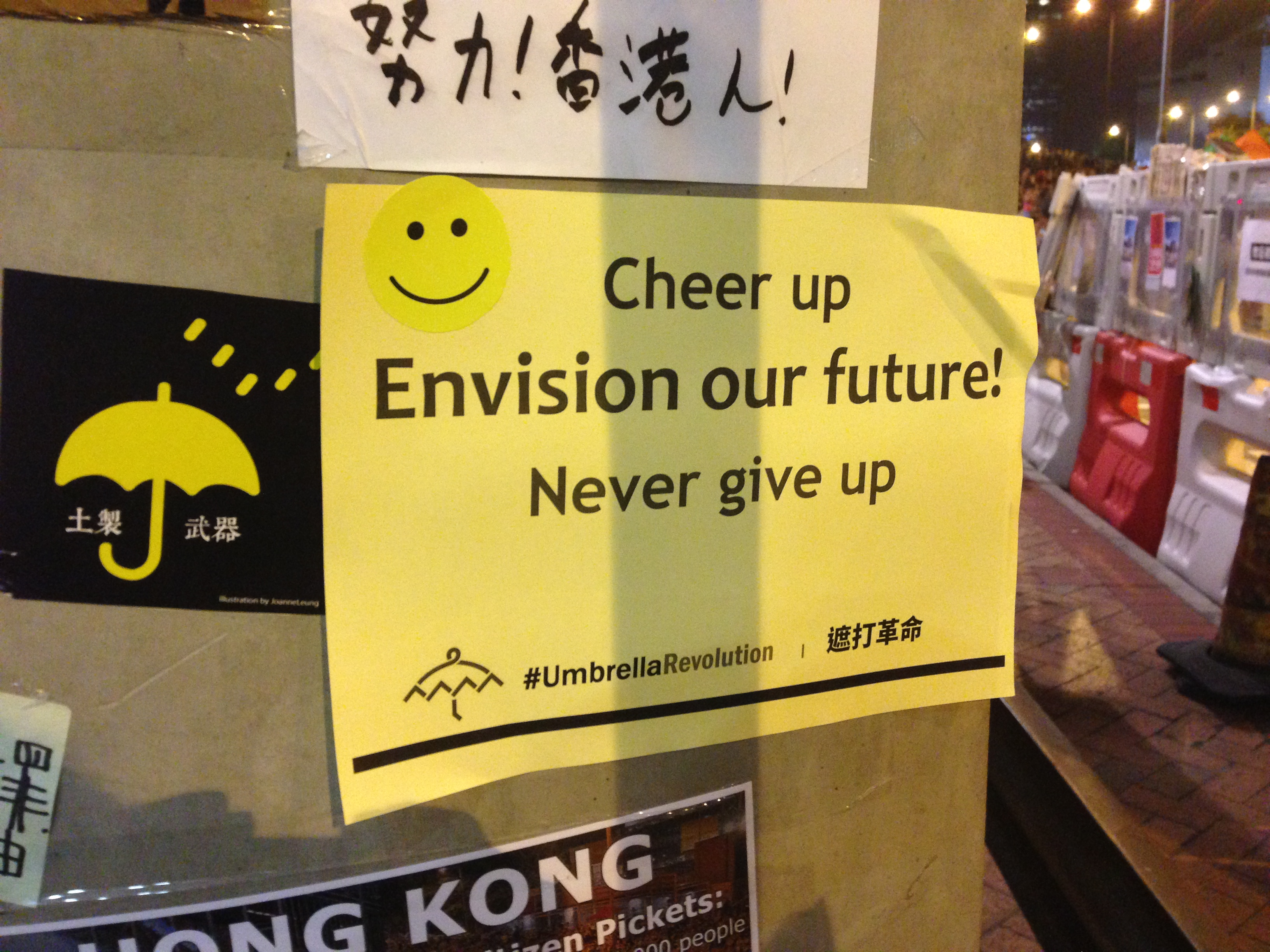 Protesters' words of support to the campaign